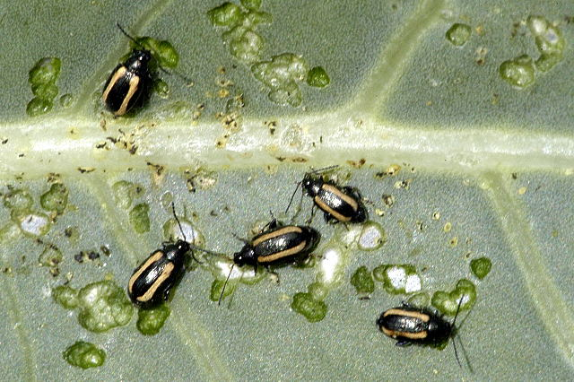 Picture taken in Commanster, Belgian High Ardennes . Species: Phyllotreta vittula